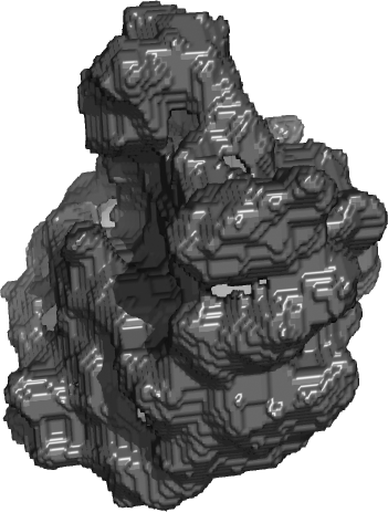 Voxel image of the Ribosome surface created using PyMOL